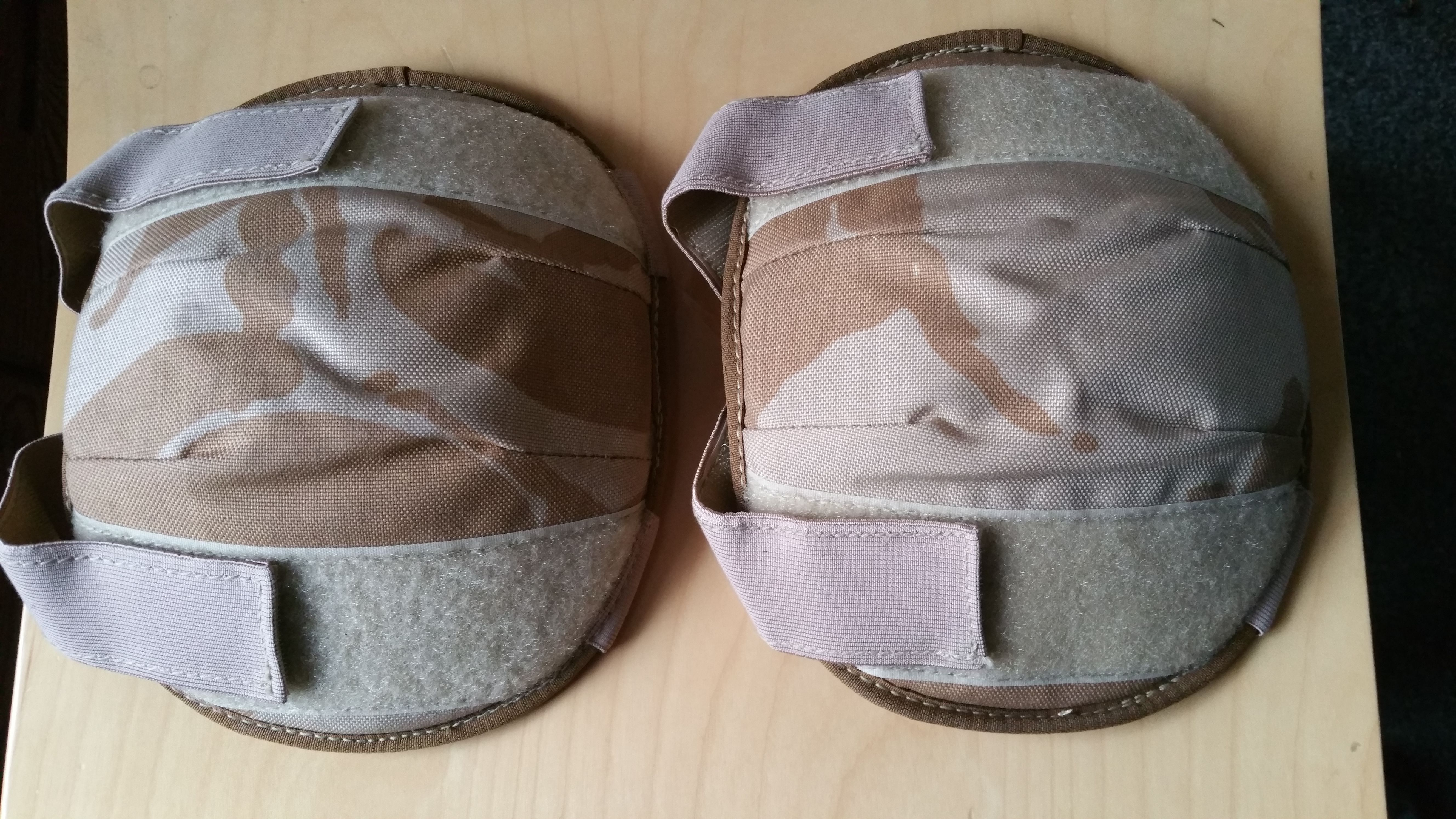 British Army desert fashion knee pads